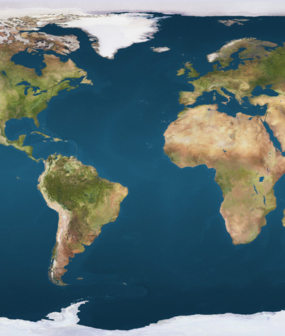 Location map of the Atlantic Ocean Equirectangular projection. Geographic limits of the map: N: 90° N S: 81° S W: 100° W E: 45° E